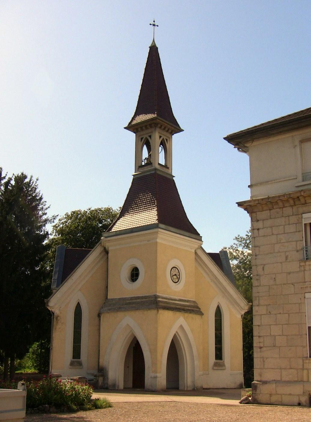 Saint-Ferjeux church, located in Besançon (Doubs, France)